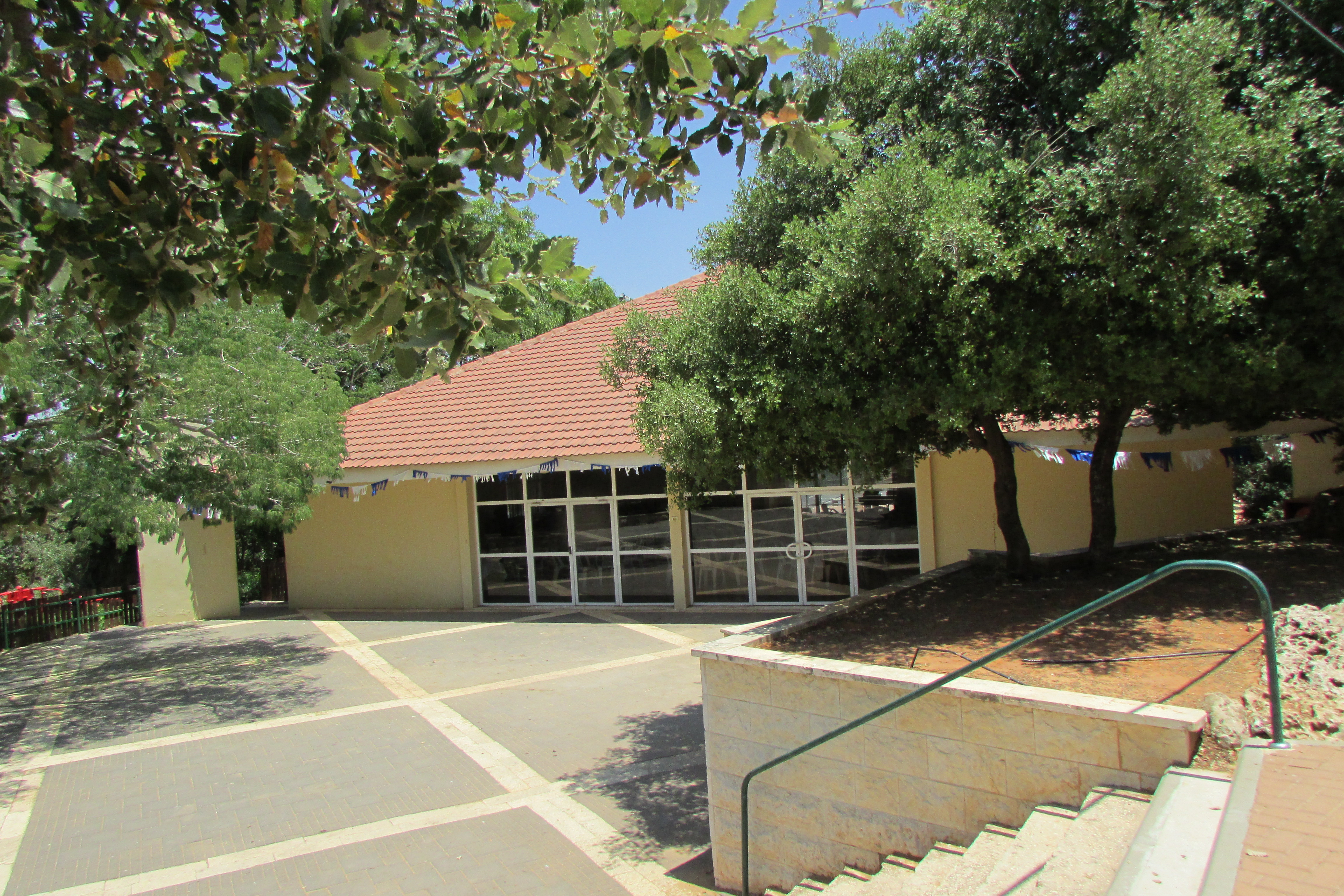 Yakir meeting house